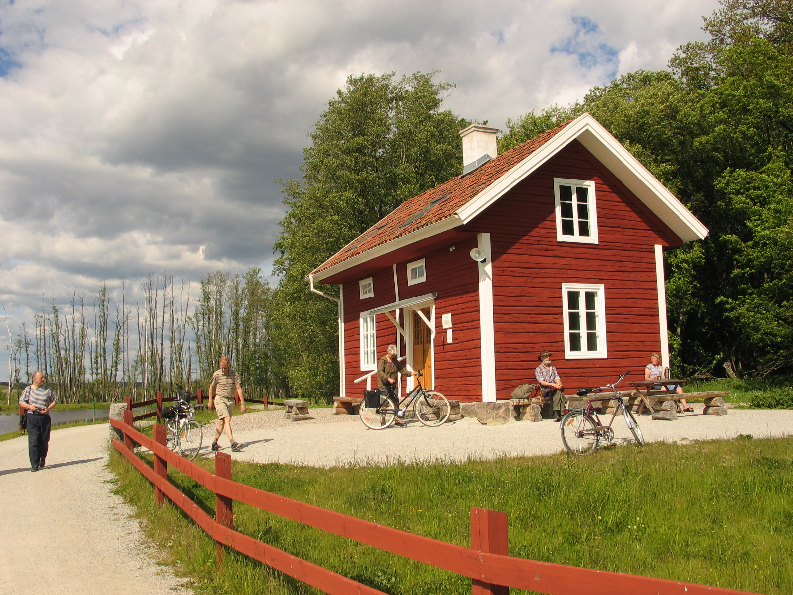 The nature park "Oset", Örebro, Sweden